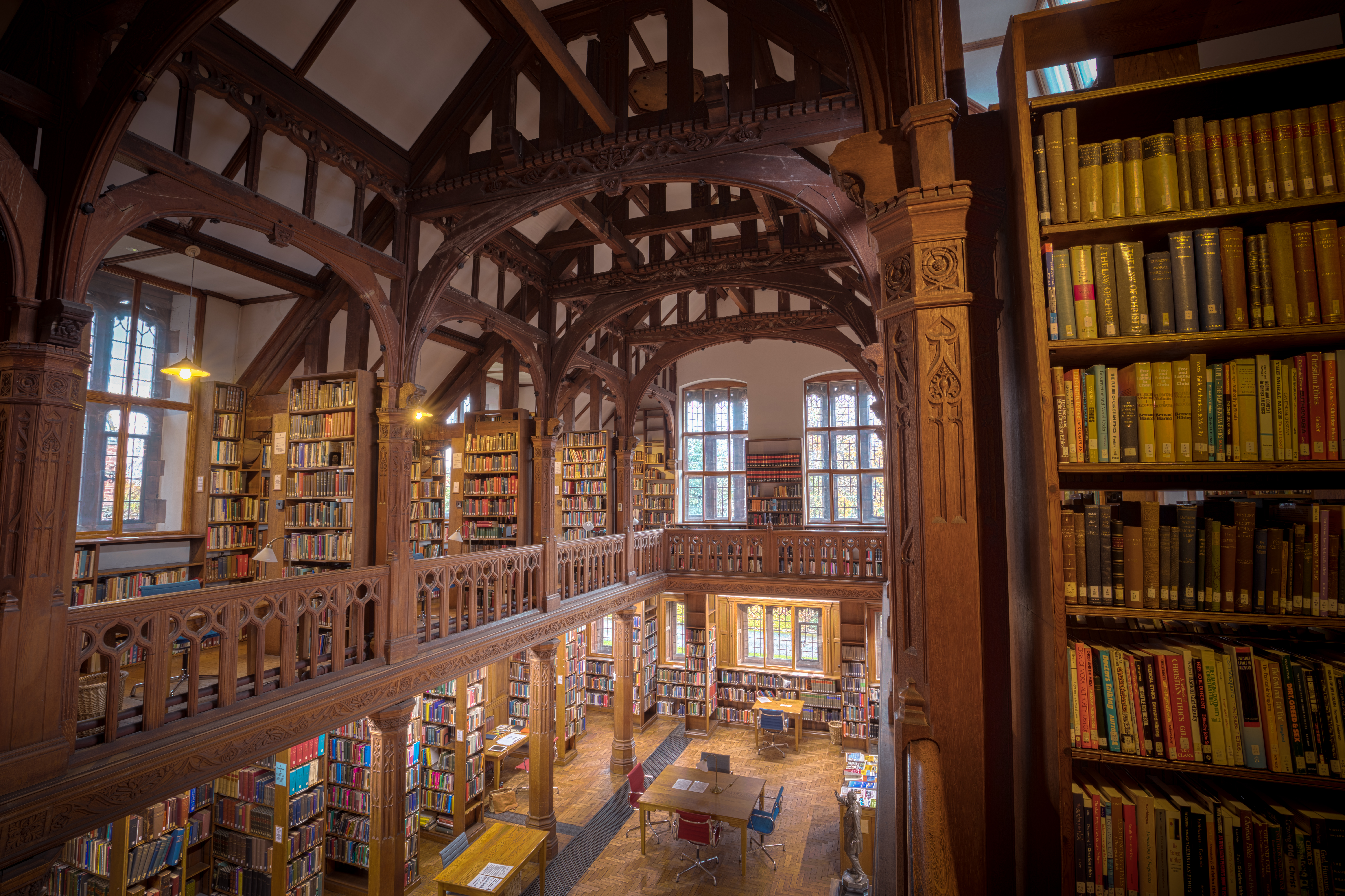 Here is an hdr photograph taken from Gladstone's Library. Located in Hawarden, Wales, UK. (taken with kind permission of the administration)